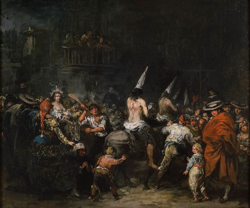 óleo sobre lienzo